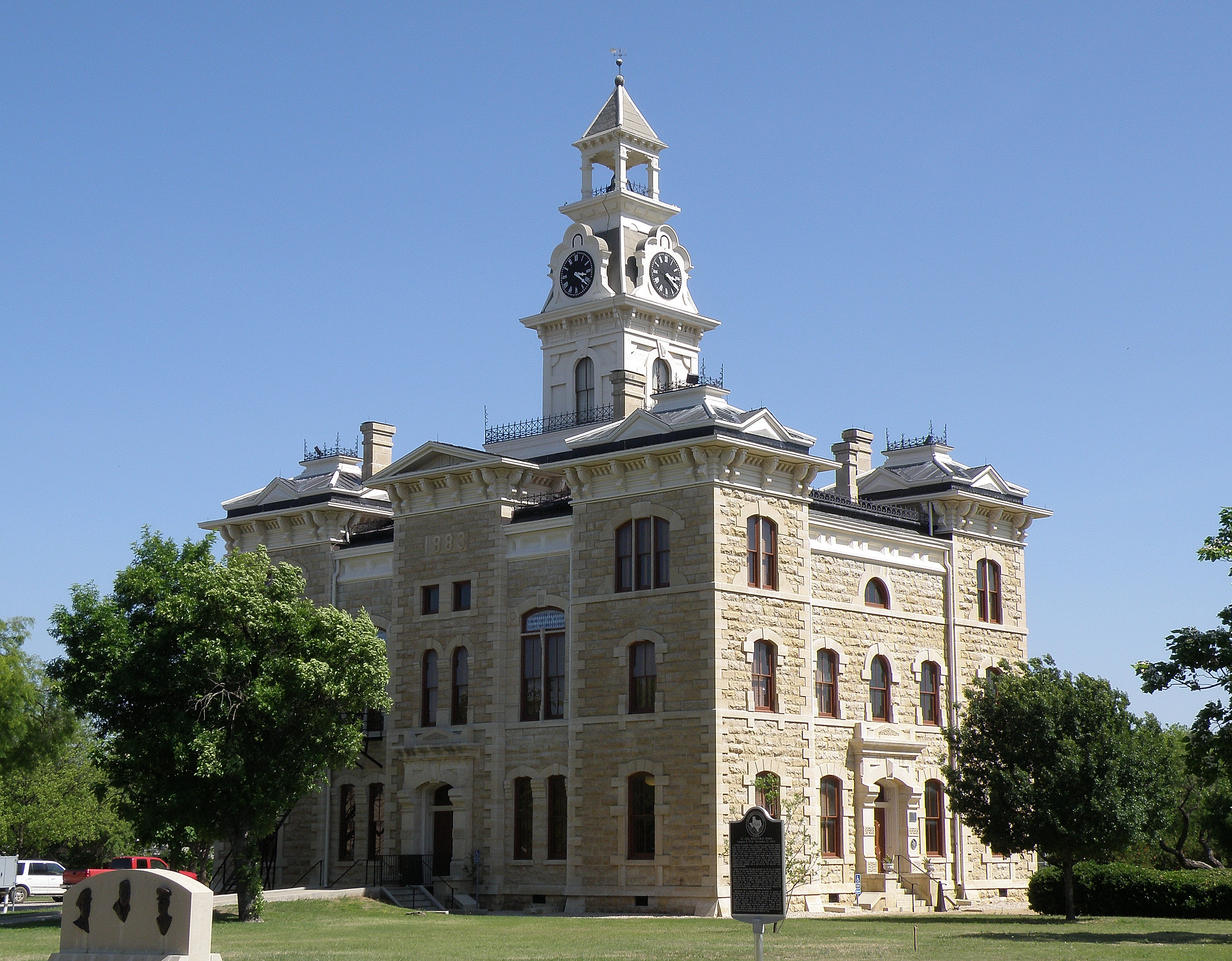 The Shackelford County Courthouse, Albany, Texas, United States. Recorded Texas Historic Landmark - 1962